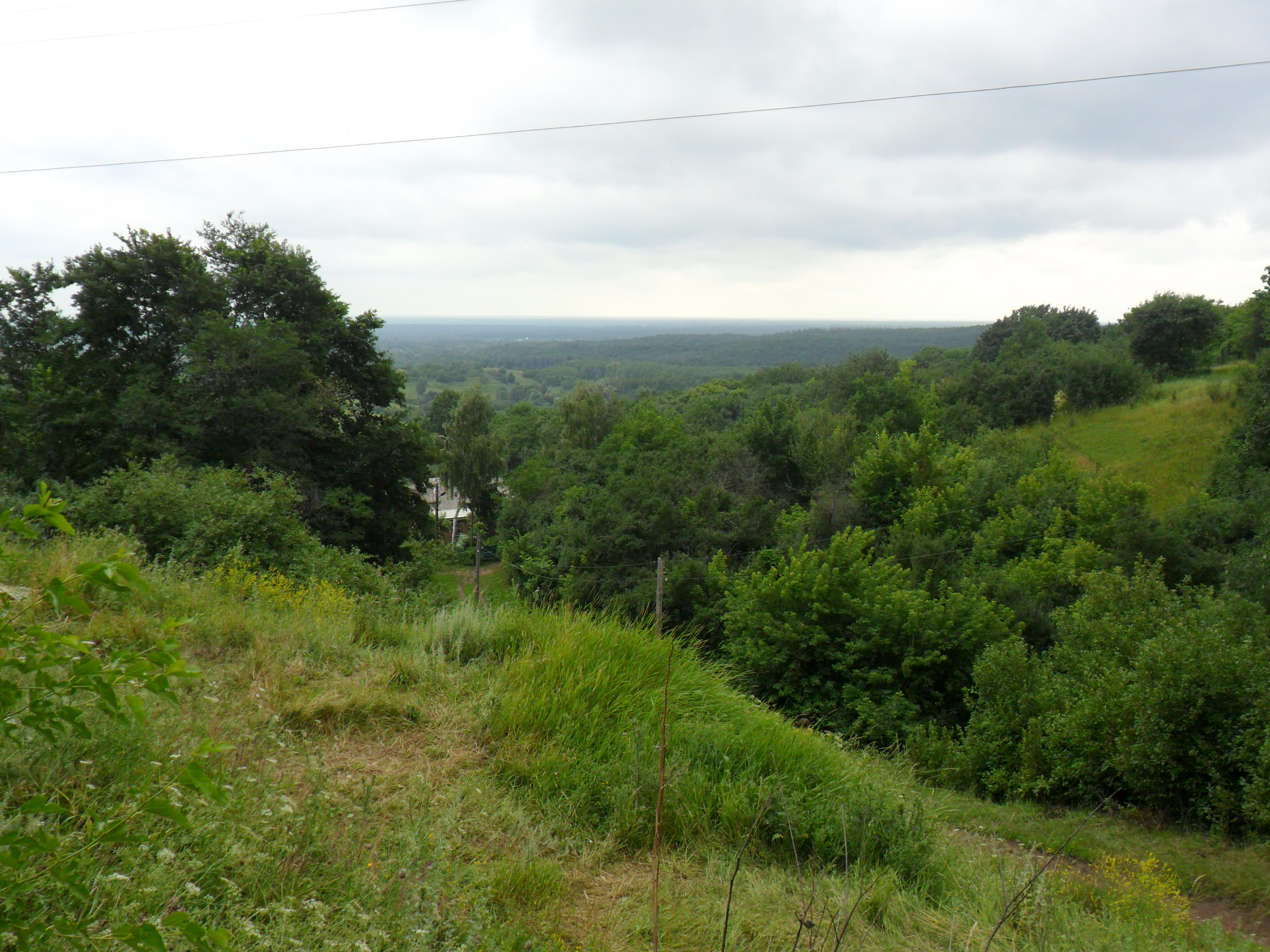 Landscape , Opishnya, Poltava Oblast